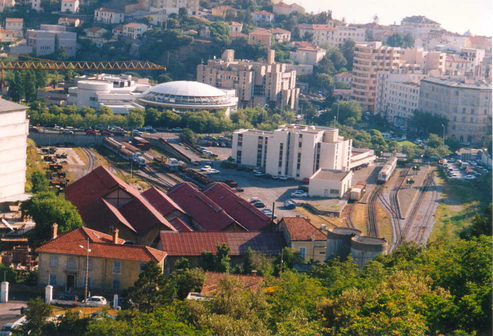 Look to the railway station of Bastia on corse, France.